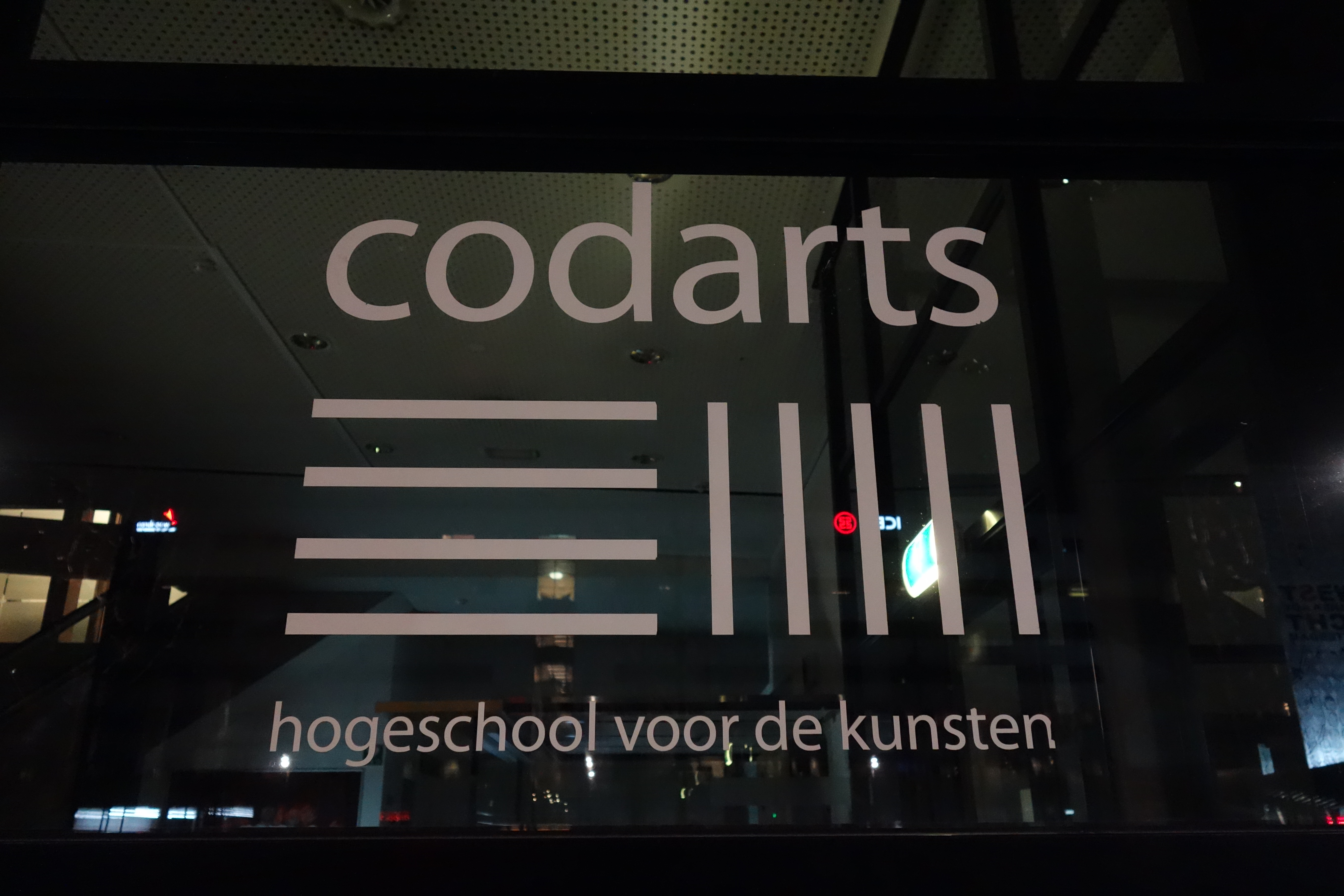 Codarts (Arts School) Rotterdam, 2017